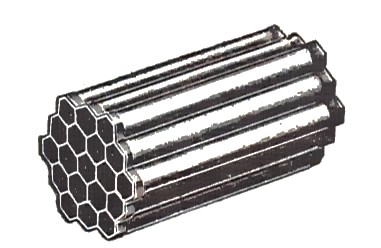 Fig. 6 Honeycomb radiator tubes Scans from 'The Book of the Motor Car', Rankin Kennedy C.E., 1912 See other images from this source in Scans from 'The Book of the Motor Car'